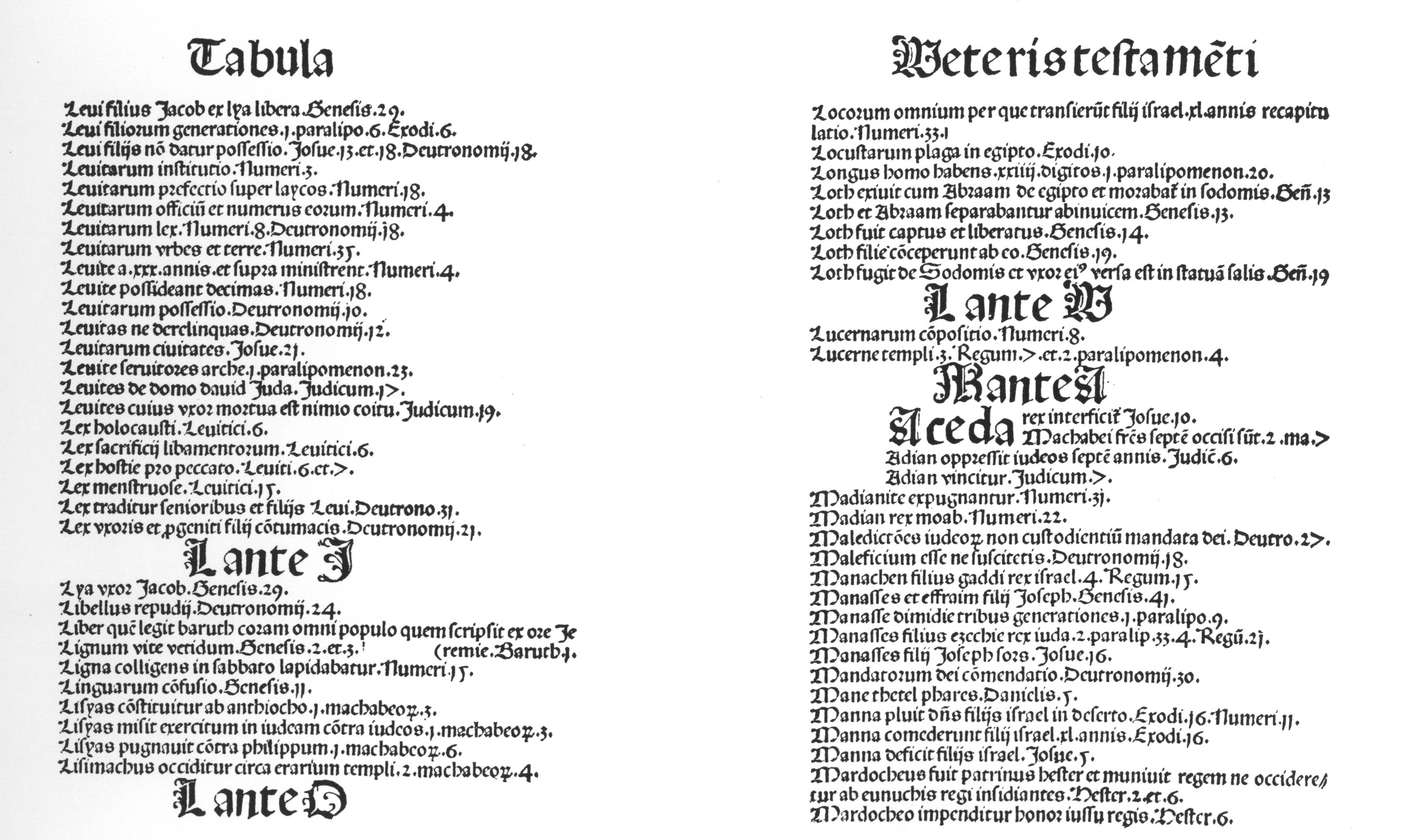 Rotunda in an incunable printed at Haguenau by Heinrich Gran in 1490: Concordantiae minores bibliae, fol. 19v und 20r.